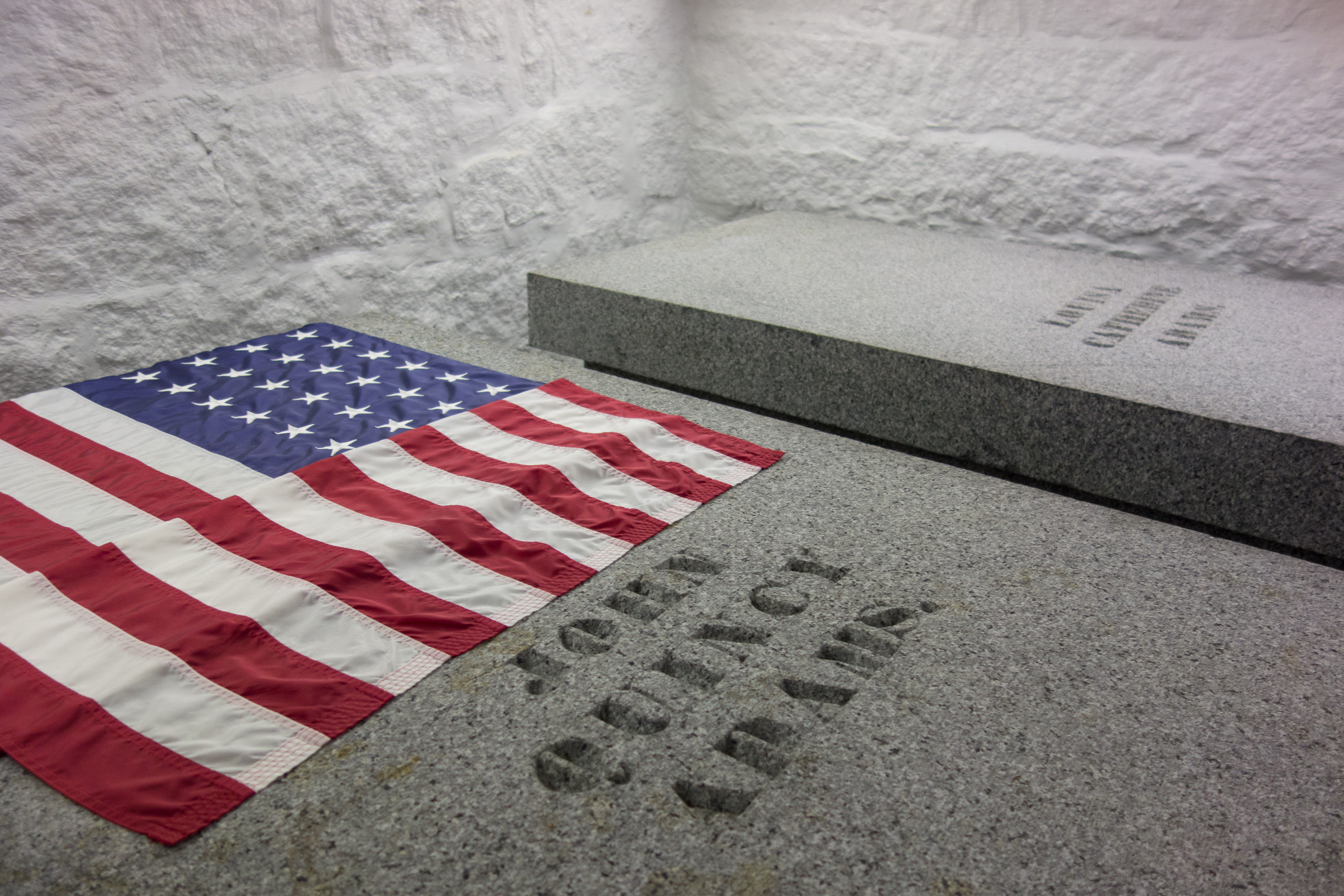 Grave of John Quincy Adams and wife, United First Parish Church, Quincy, MA